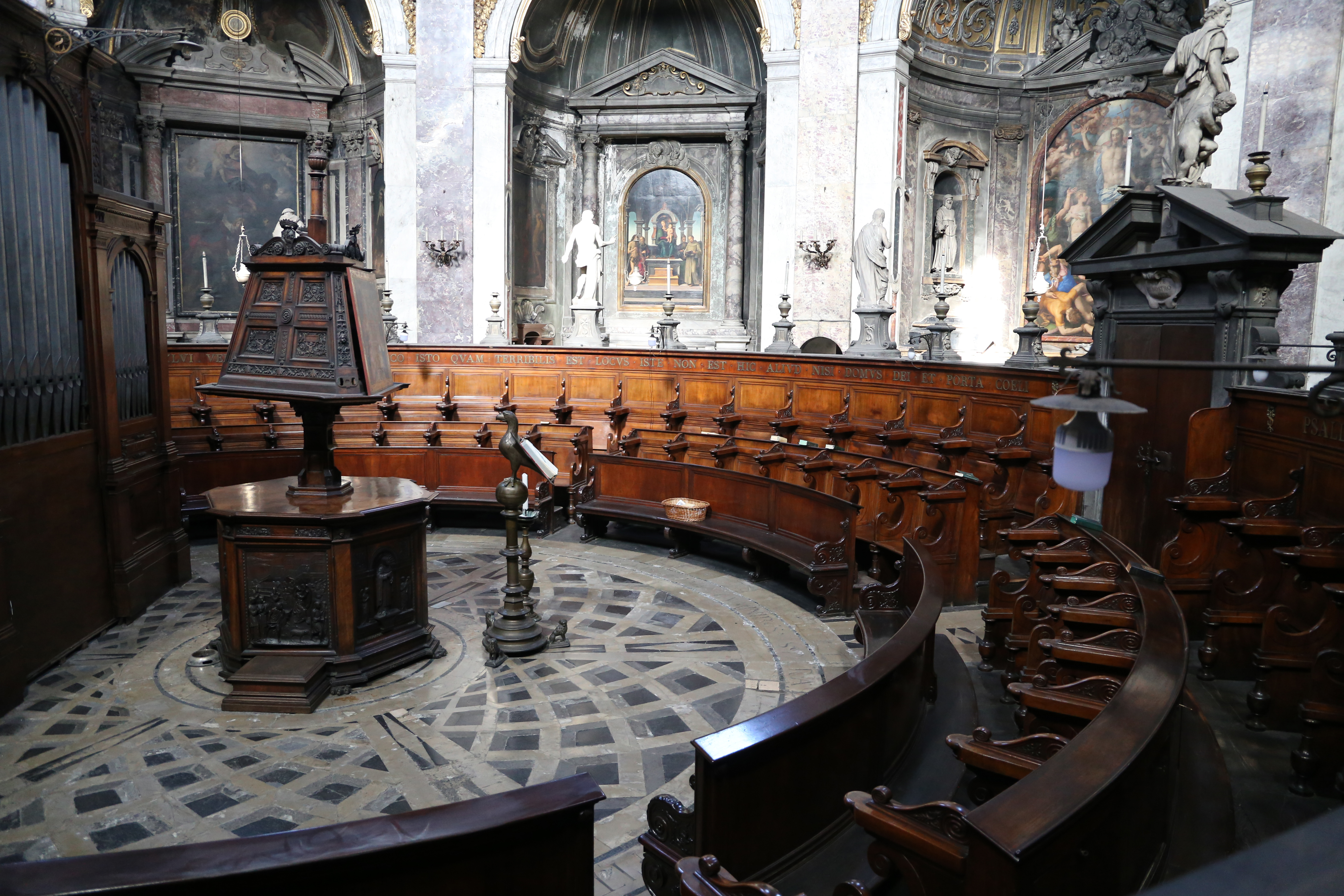 Santissima Annunziata (Florence)